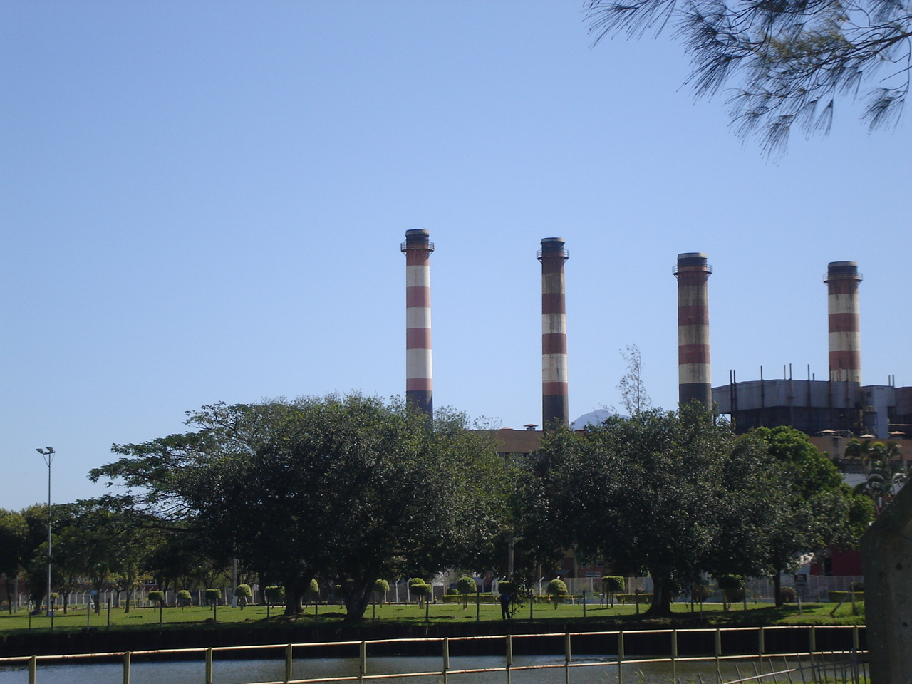 FURNAS